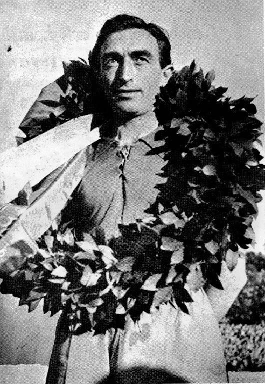 Malte Mårtensson, swedish footballplayer